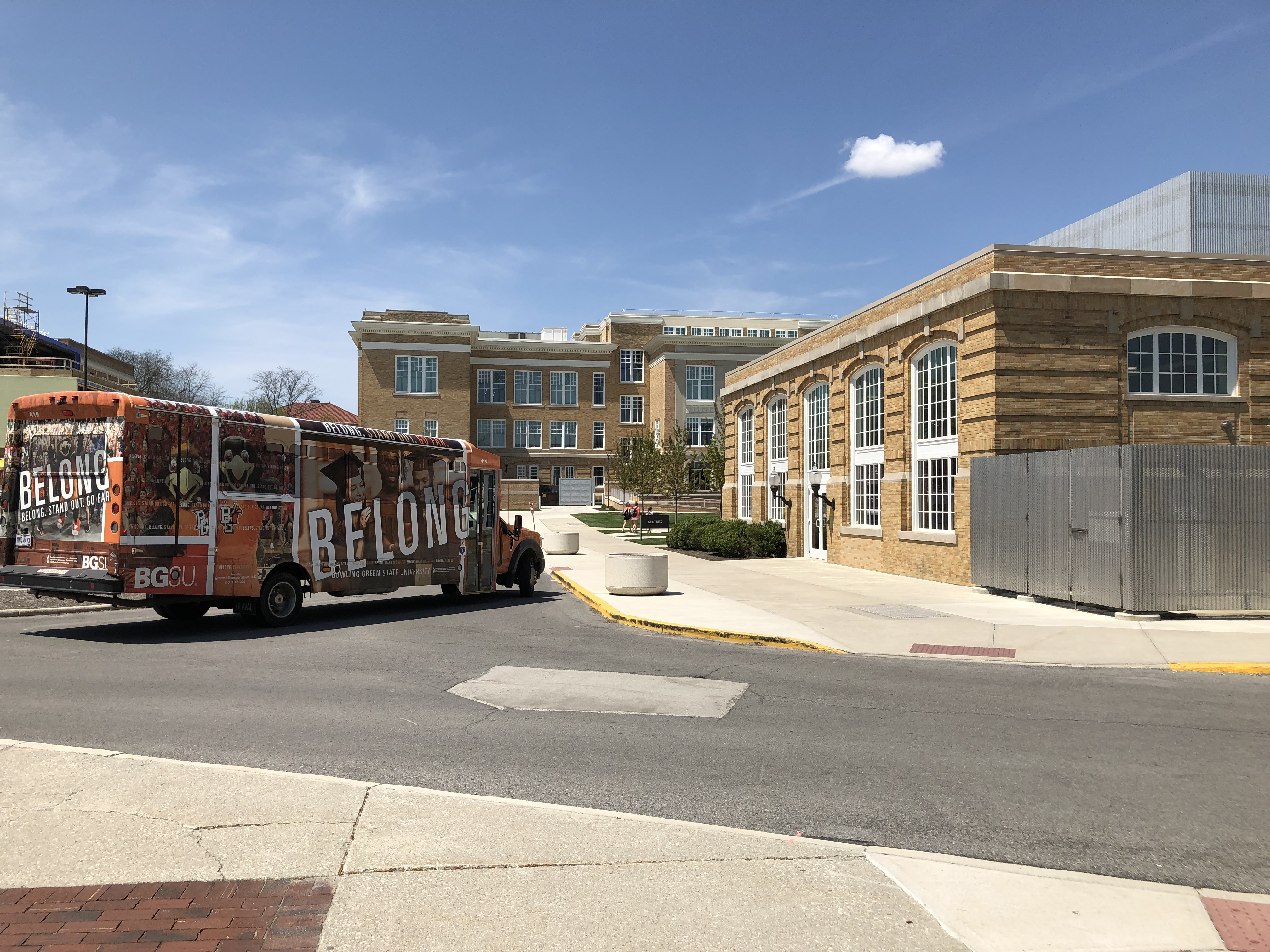 Centrex Bus Stop at Bowling Green State University. A University shuttle is pulling into the station. University Hall is visible in the background.